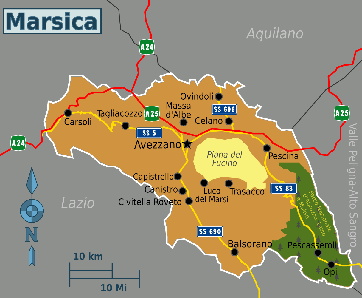 Marsica